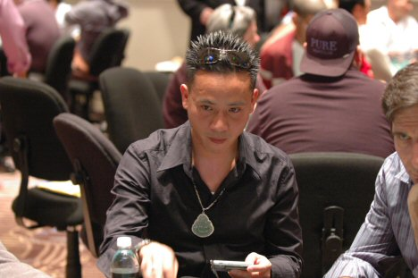 Bon "John" Phan playing in Nicky Hilton's poker tournament New Year's Eve Las Vegas 2006.